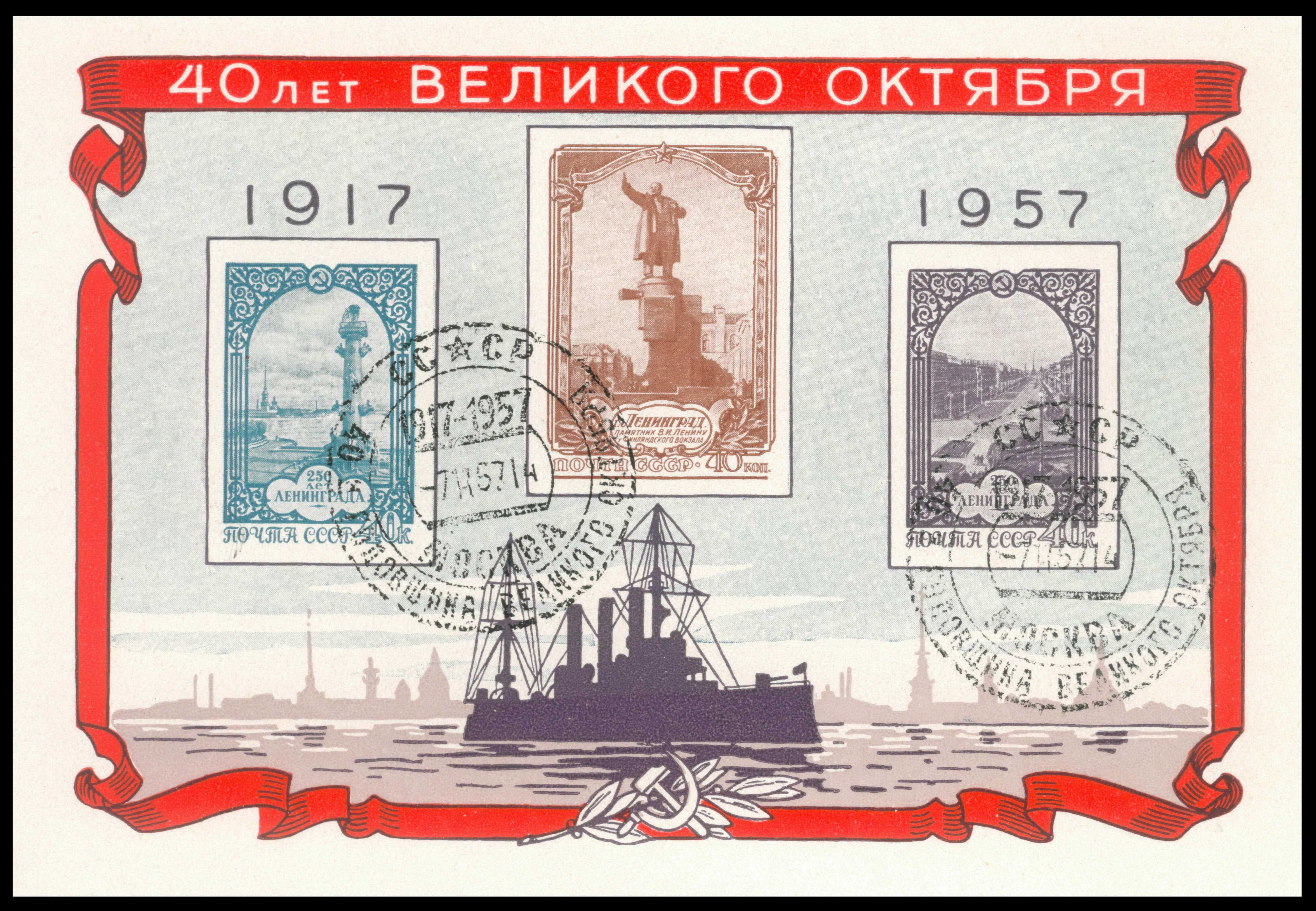 USSR miniature sheet (2 of 2), 1957, 40th anniversary of the October Revolution. First Day postmark.